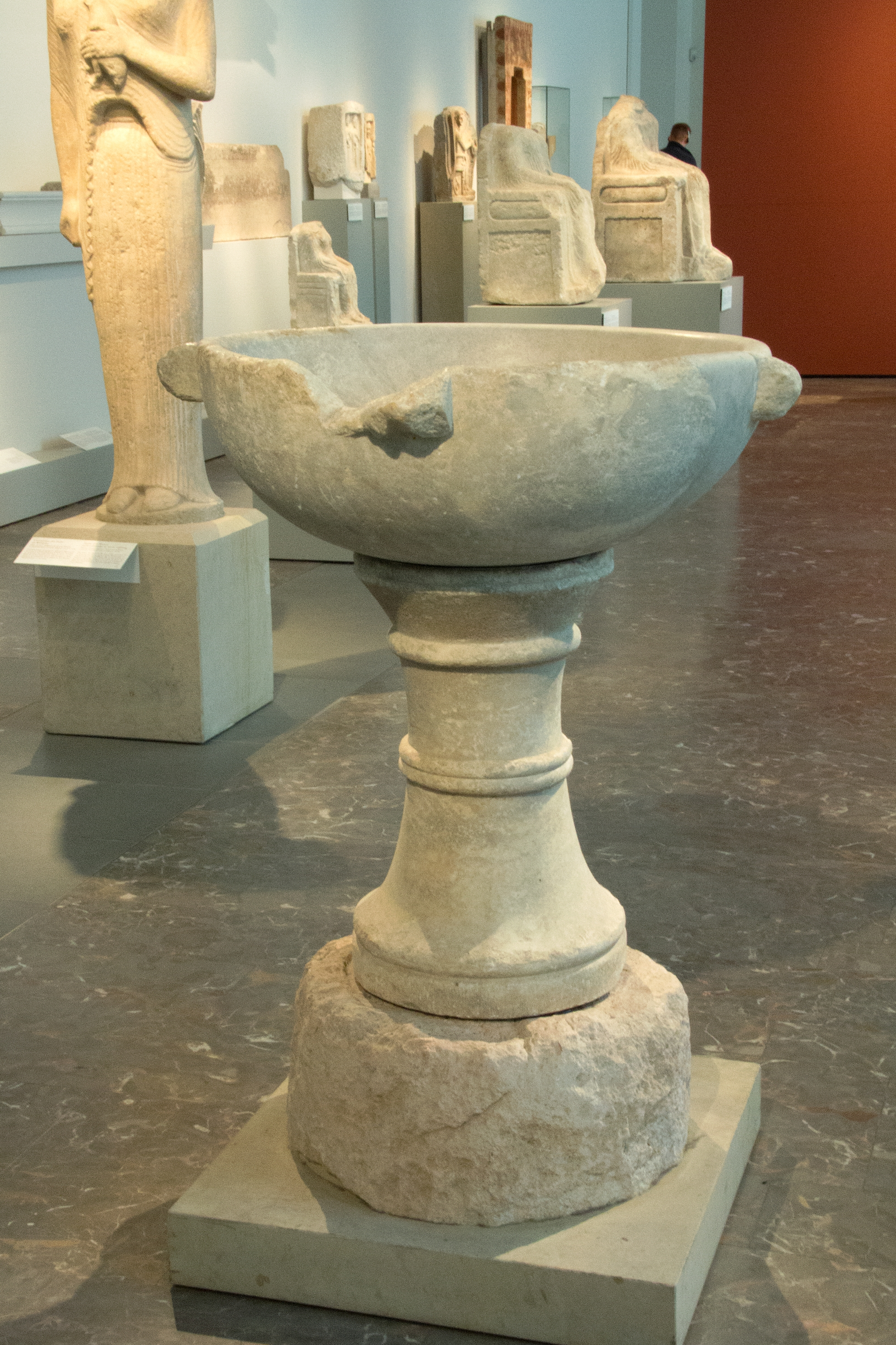 Purification vessel from the Temple of Athena in Miletus, ca 550 BC. Altes Museum Berlin.